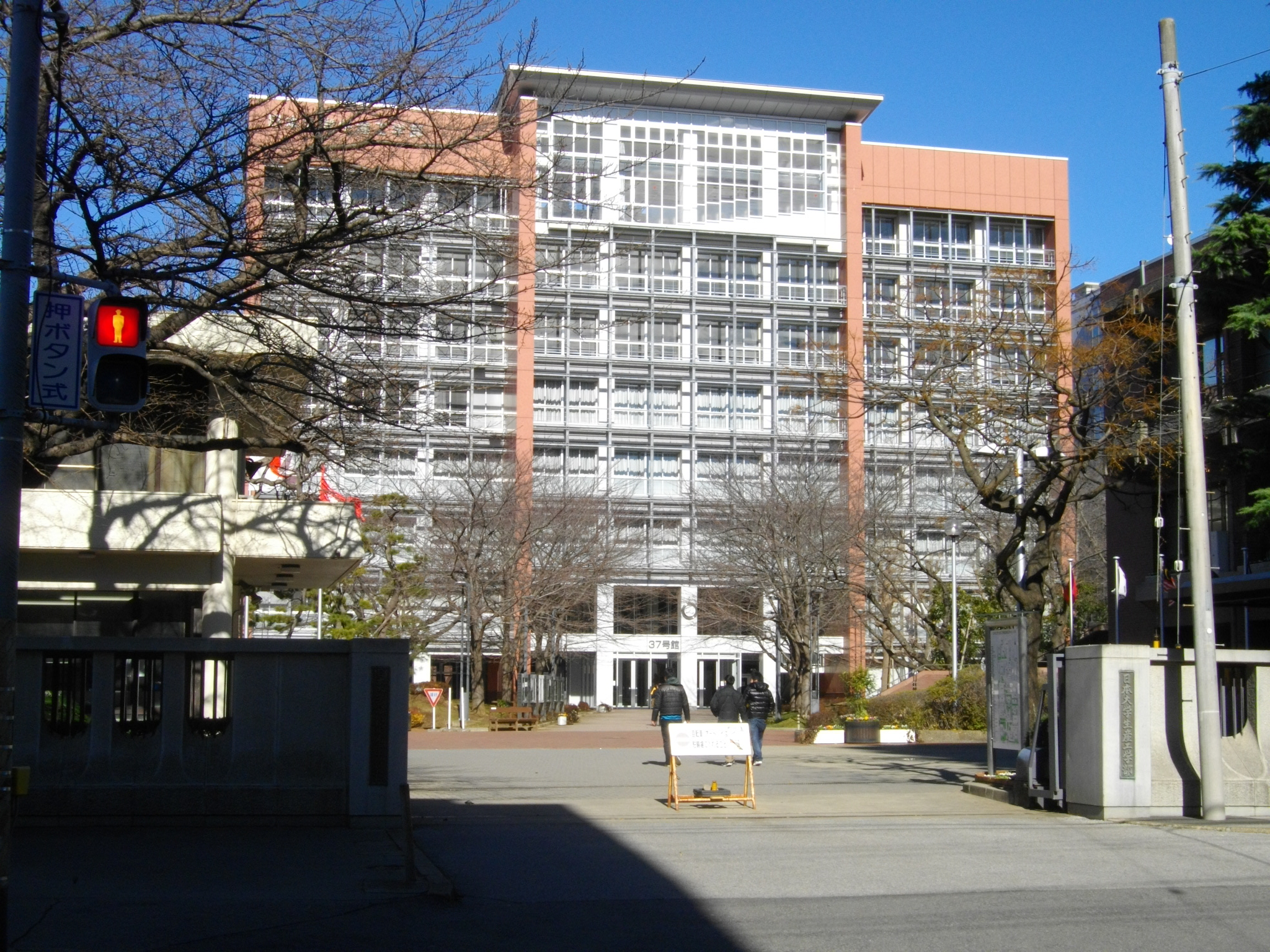 Nihon University Tsudanuma Campus